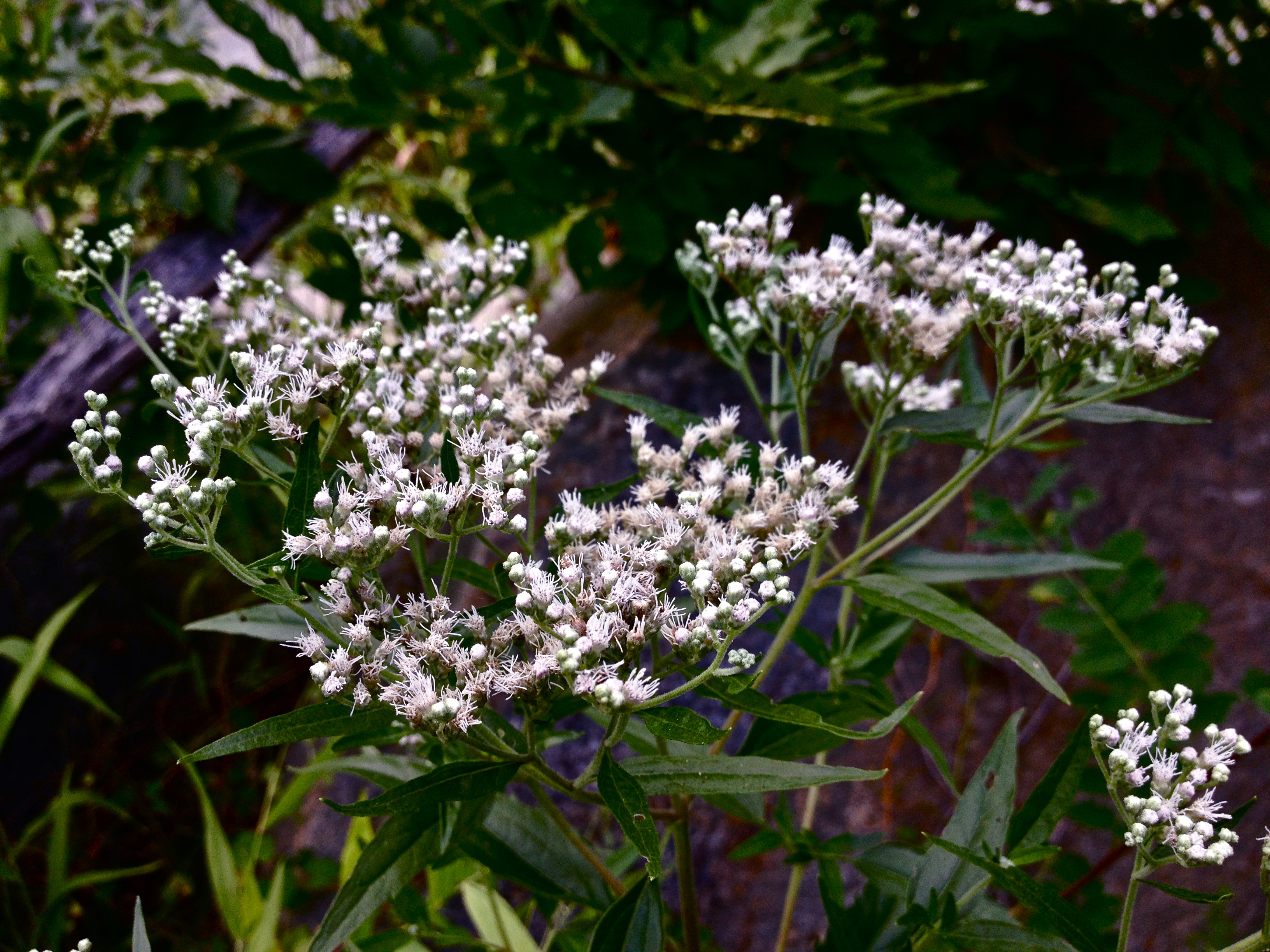 Photo of Eupatorium serotinum in flower. This is a native plant growing wild in the C & O Canal National Historical Park, Washington, D.C., USA. This species is a member of the Asteraceae family.